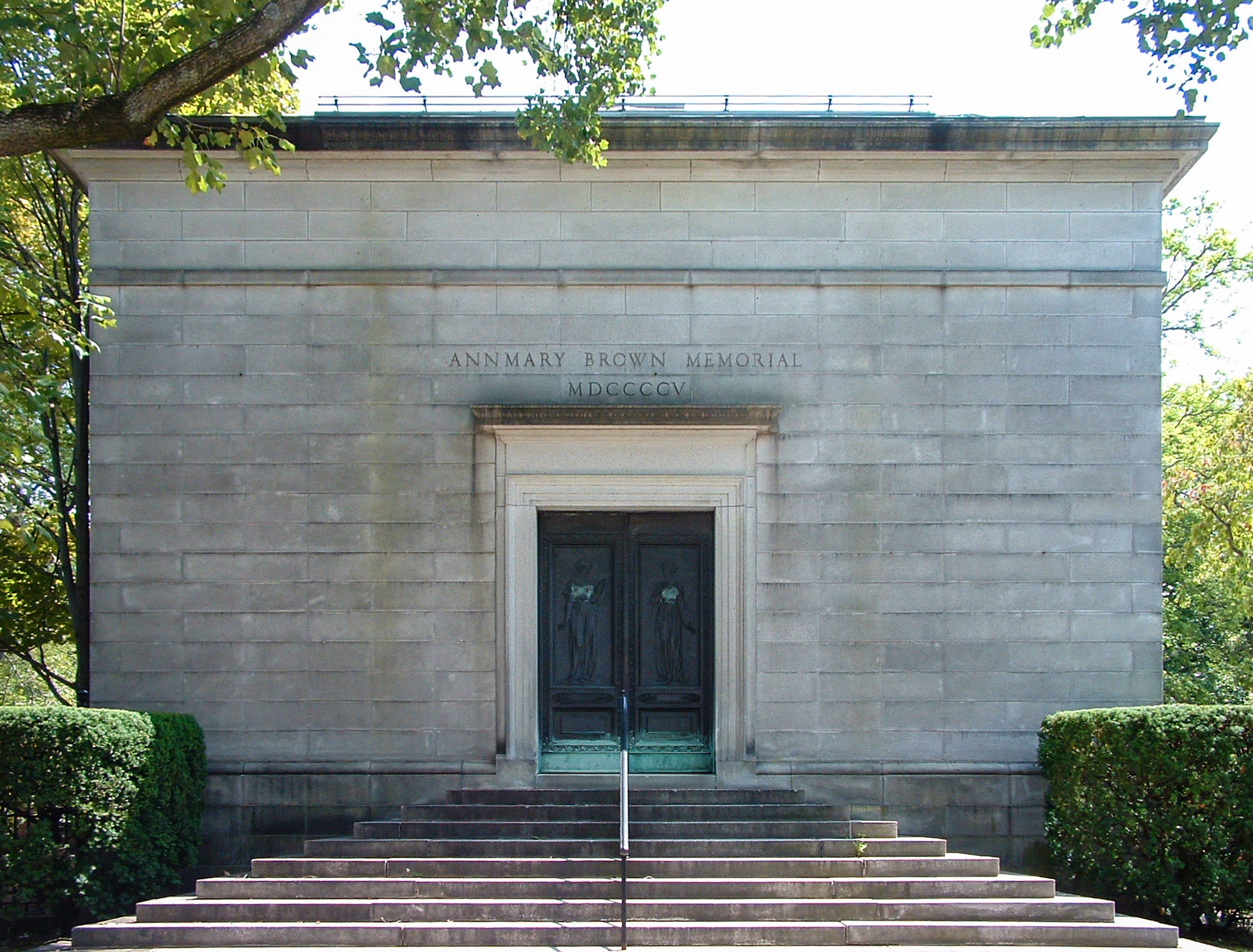 Brown University - Annmary Brown Memorial